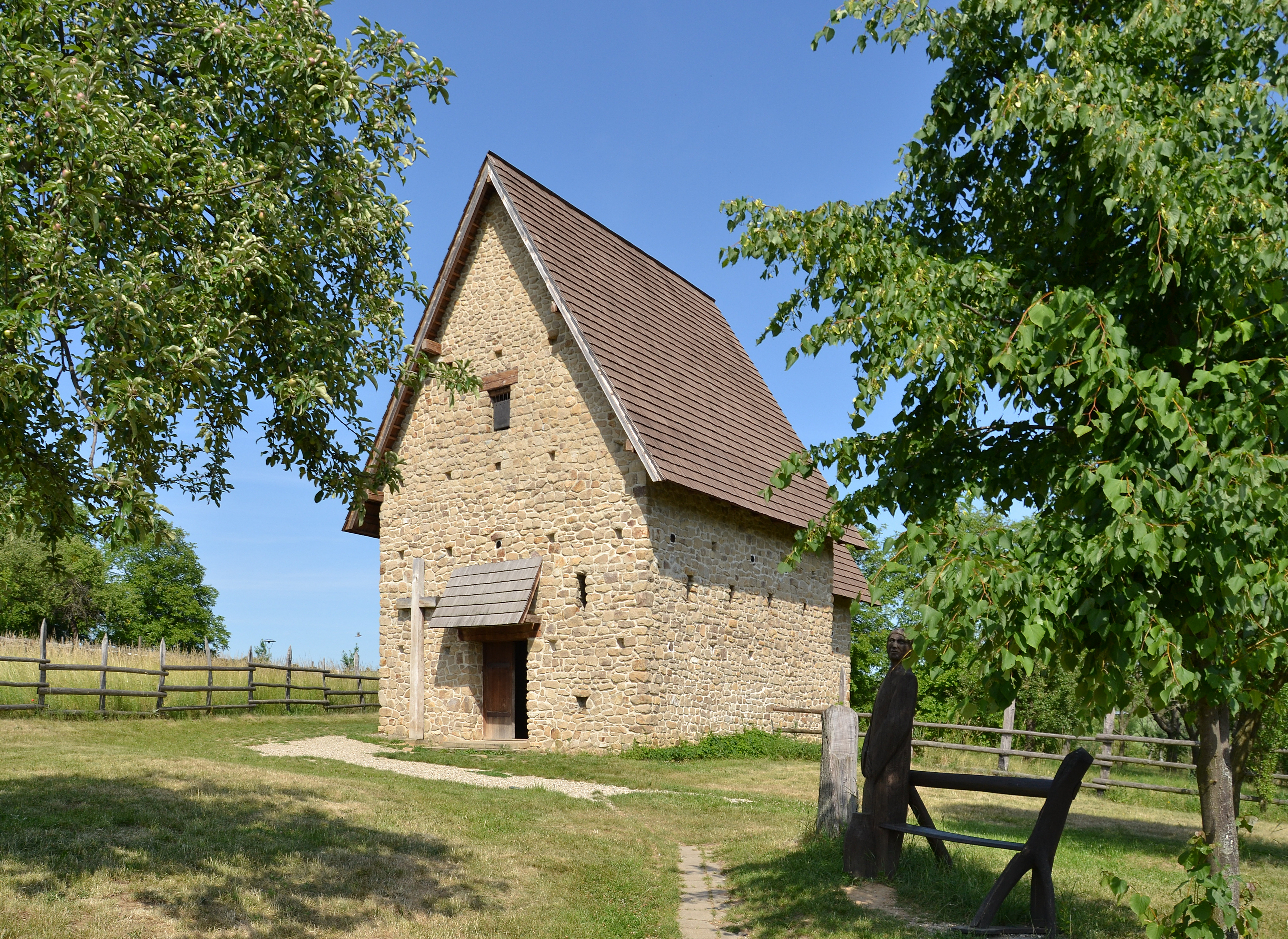 Replica of the church from Great Moravia period. Modrá, Czech Republic